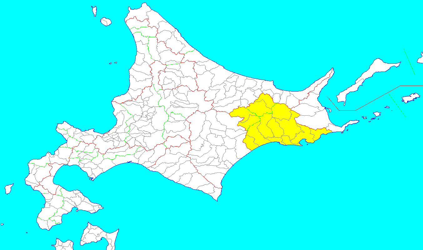 area of Kushiro provinces of Hokkaido in Japan(1869/08/15)